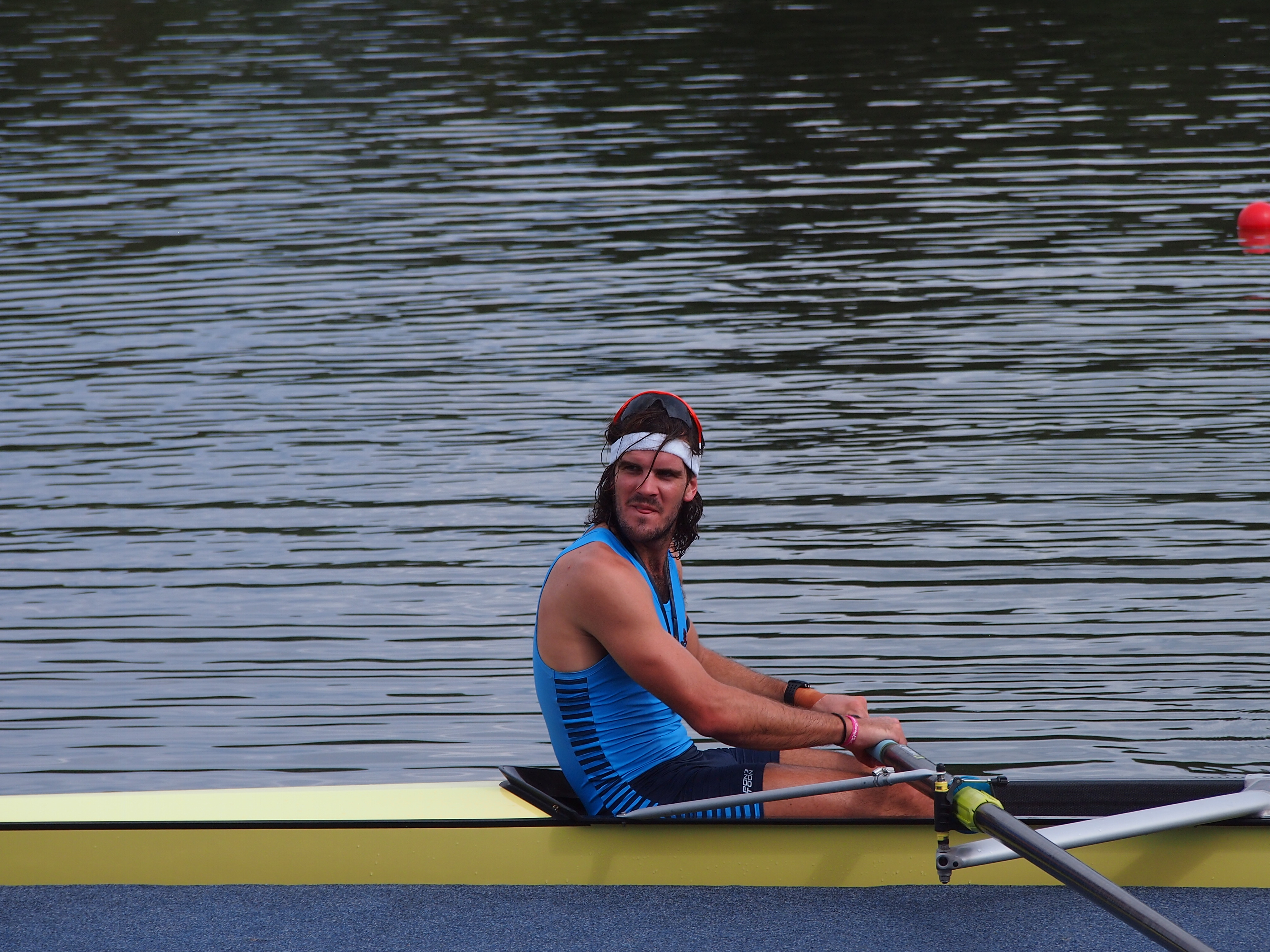 Purnell after winning the Kings Cup in 2014